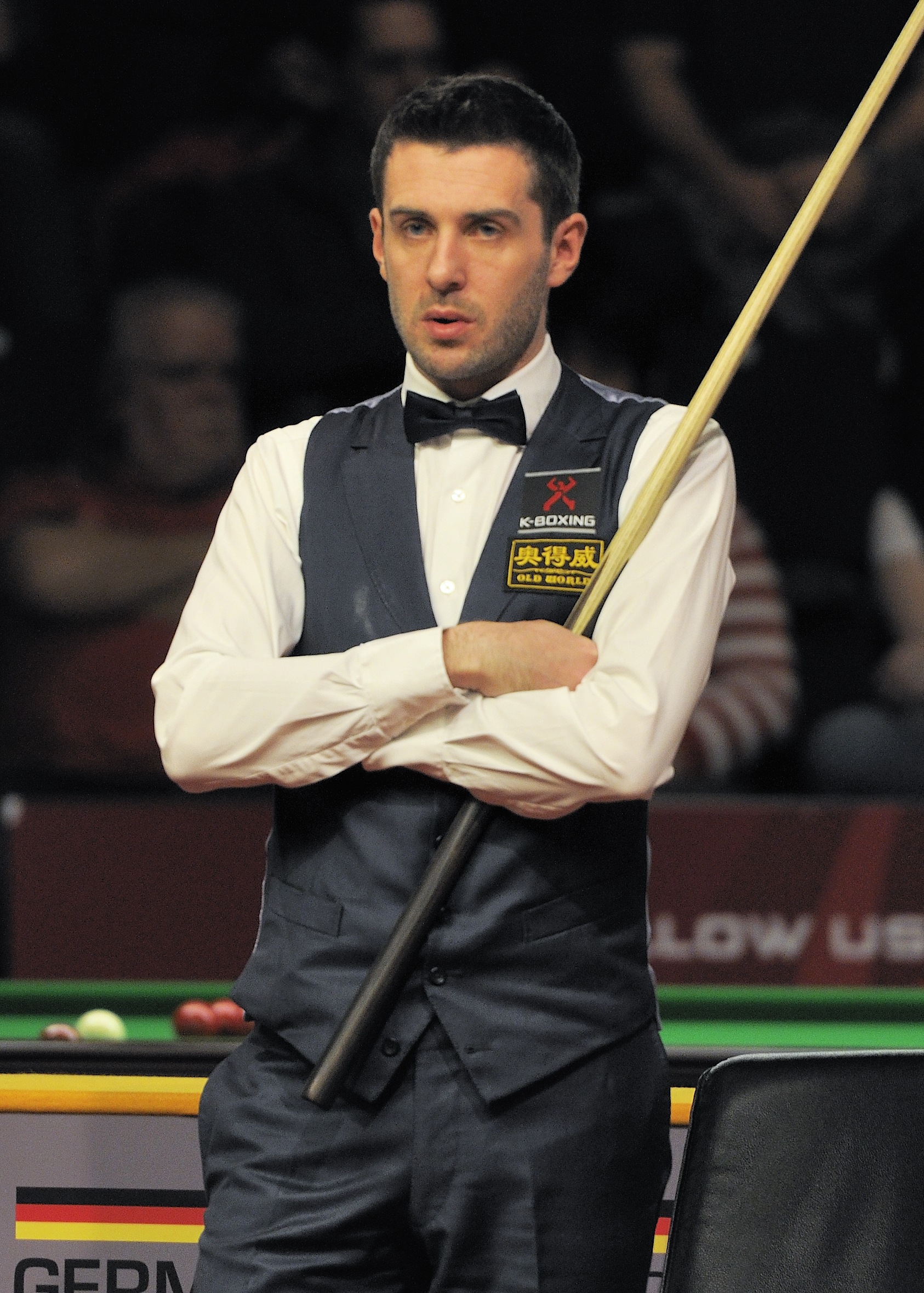 Picture taken in Berlin during the Snooker German Masters in 2014. Mark Selby.